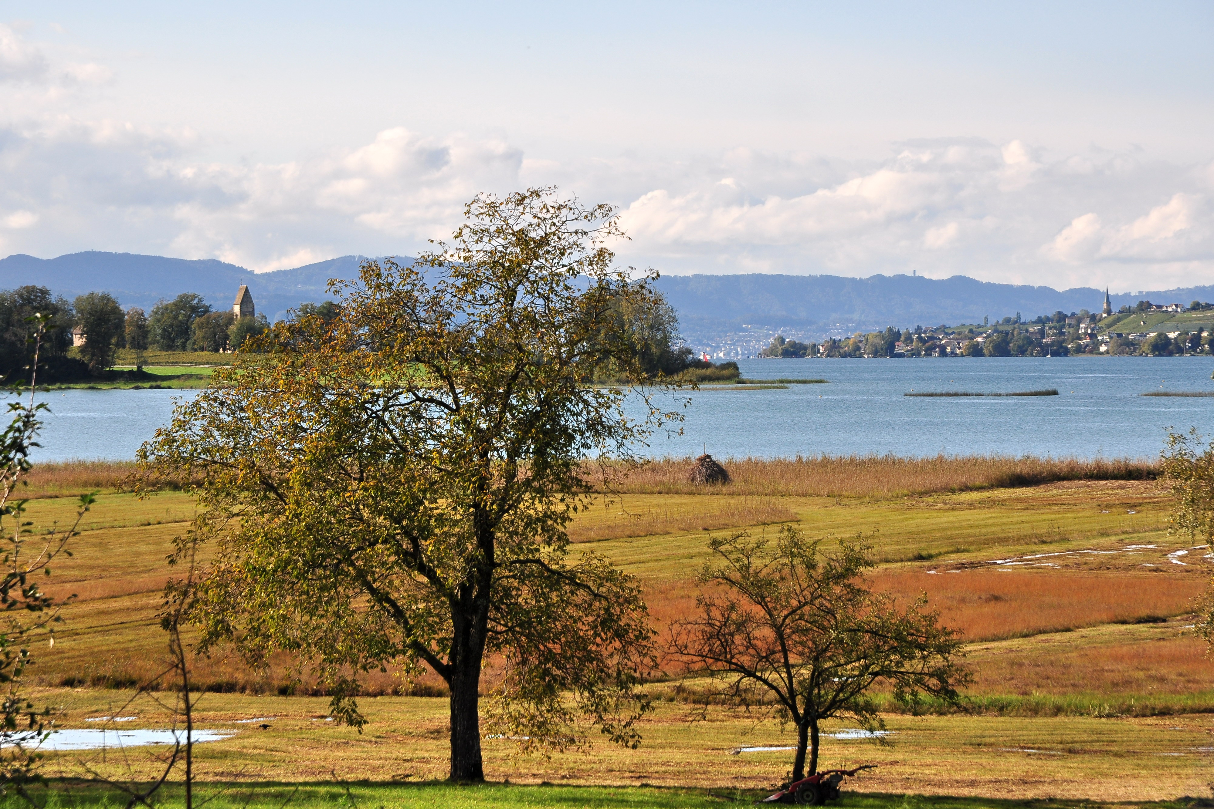 Ufenau on Zürichsee, St. Martin church to the left, St. Peter & Paul to the right, as seen from Seedamm nearby Hurden, Frauenwinkel proteced area in the foreground, Albis in the background.